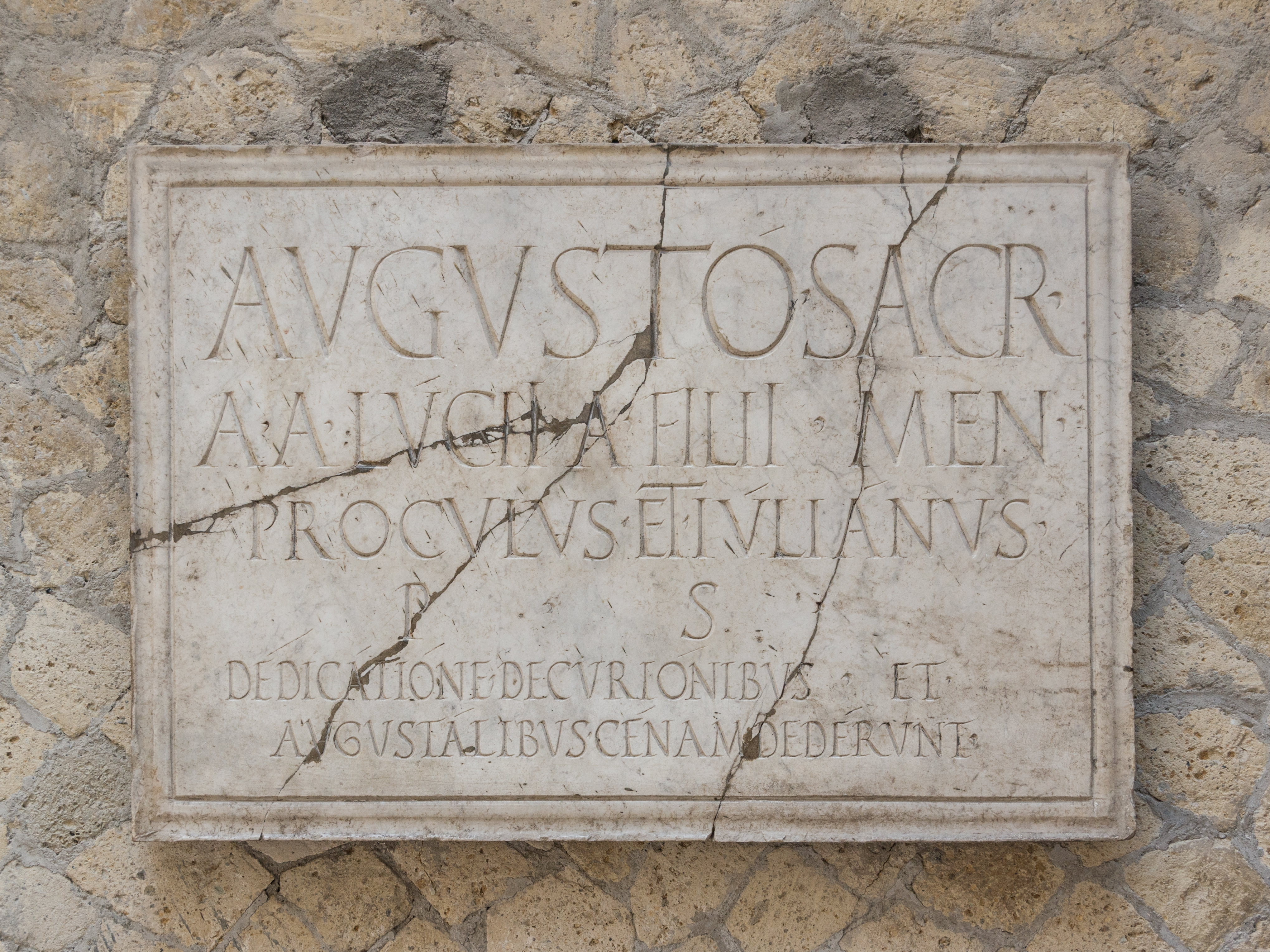 Inauguration plaque of the "Hall of Augustals", Herculaneum, Italy.